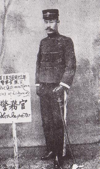 Joseon New-Style Policeman